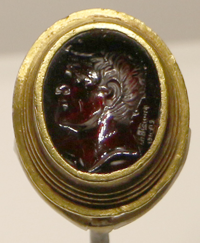 Ancient jewellery in the Art Institute of Chicago